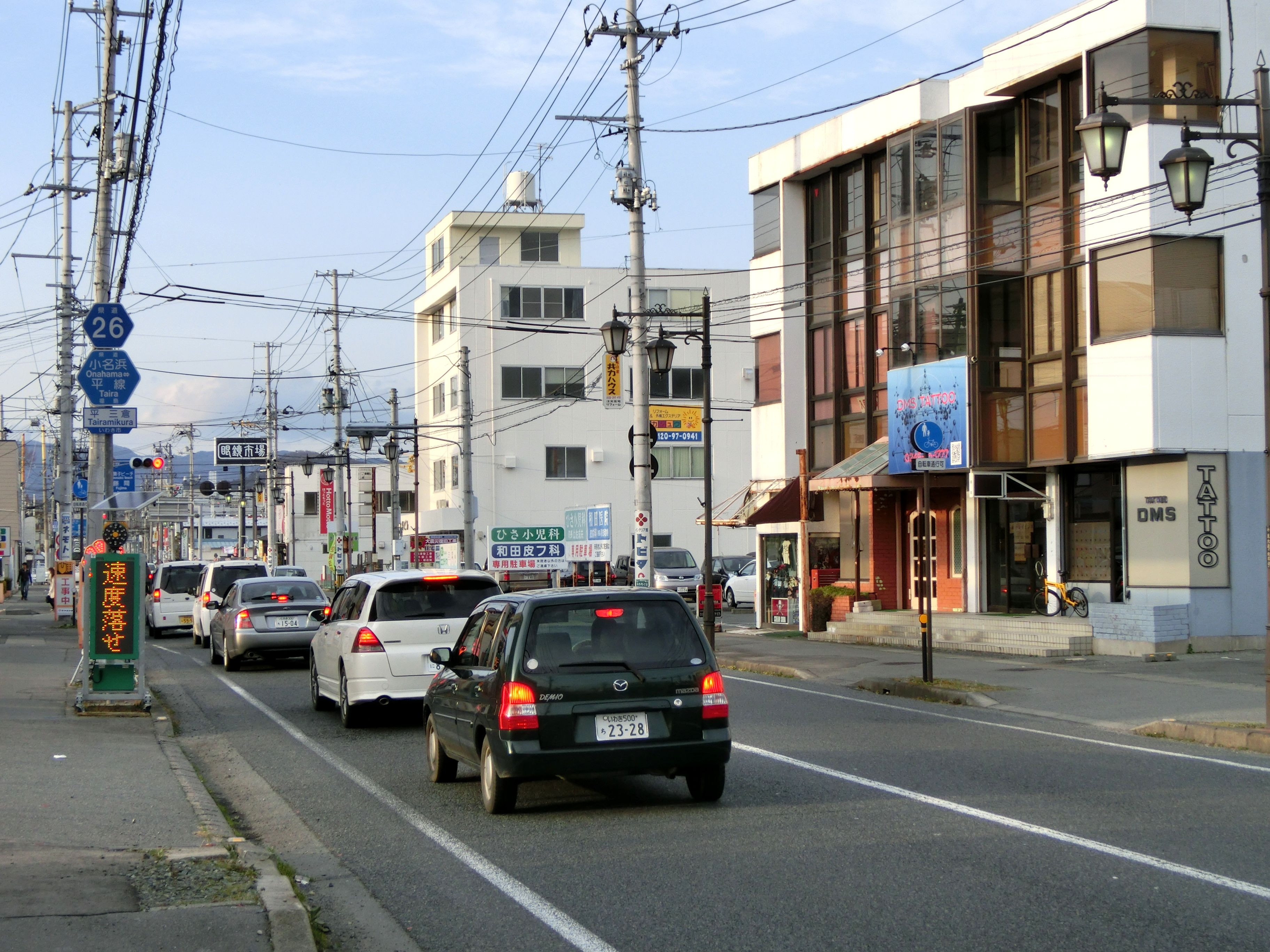 The Fukushima Prefectural Road Route 26 in Taira, Iwaki City